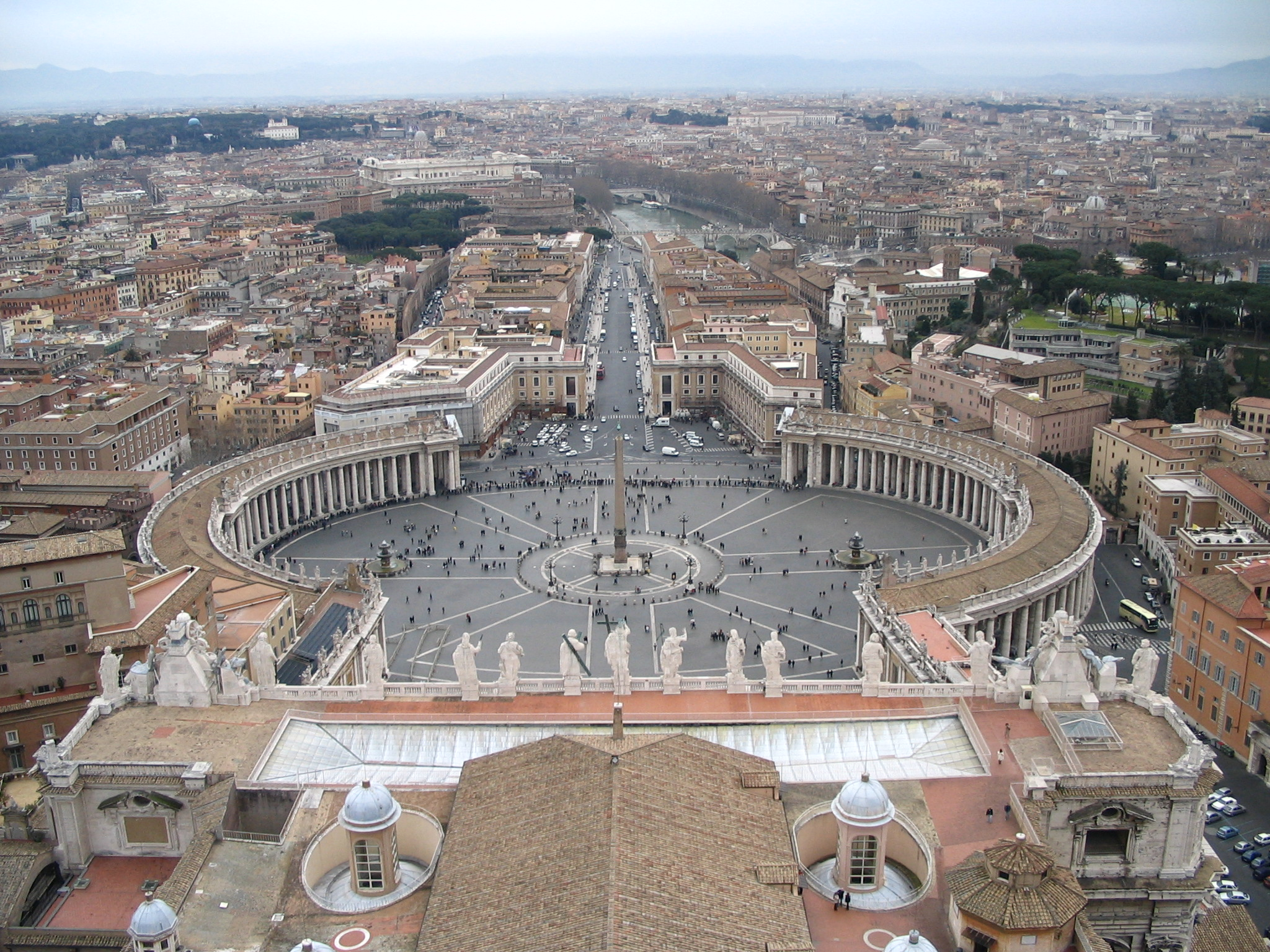 Saint Peter's square from the St. Peter's Basilica's dome in Vatican City. Architect: Gian Lorenzo Bernini.